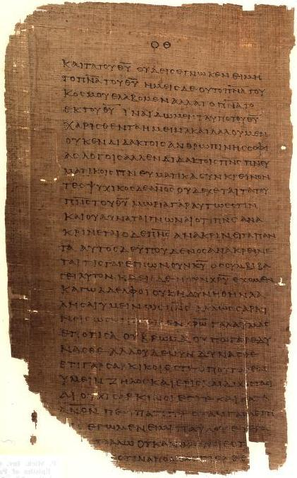 trimmed version of UMich scientific photo reproduction of papyrus from 2nd century